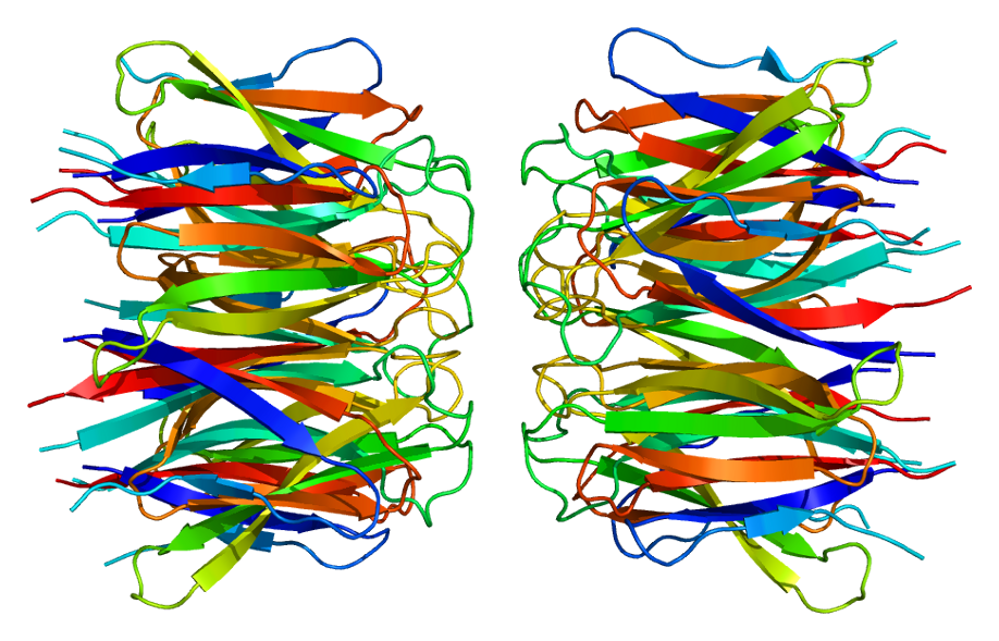 Structure of the NPM1 protein. Based on PyMOL rendering of PDB 2p1b.